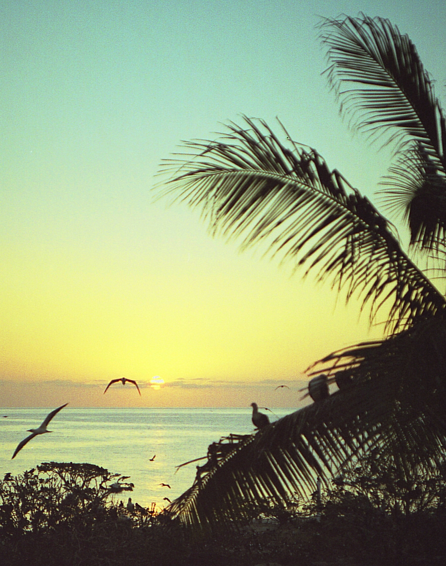 Typical Booby habitat. Willis Island (Coral Sea islands), Australia.